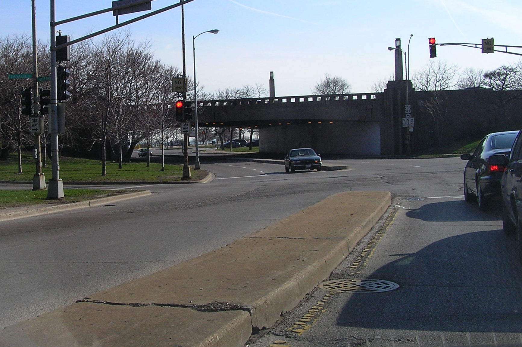 Illinois 64 traveling eastbound at its eastern terminus with U.S. Route 41 on the north side of Chicago.